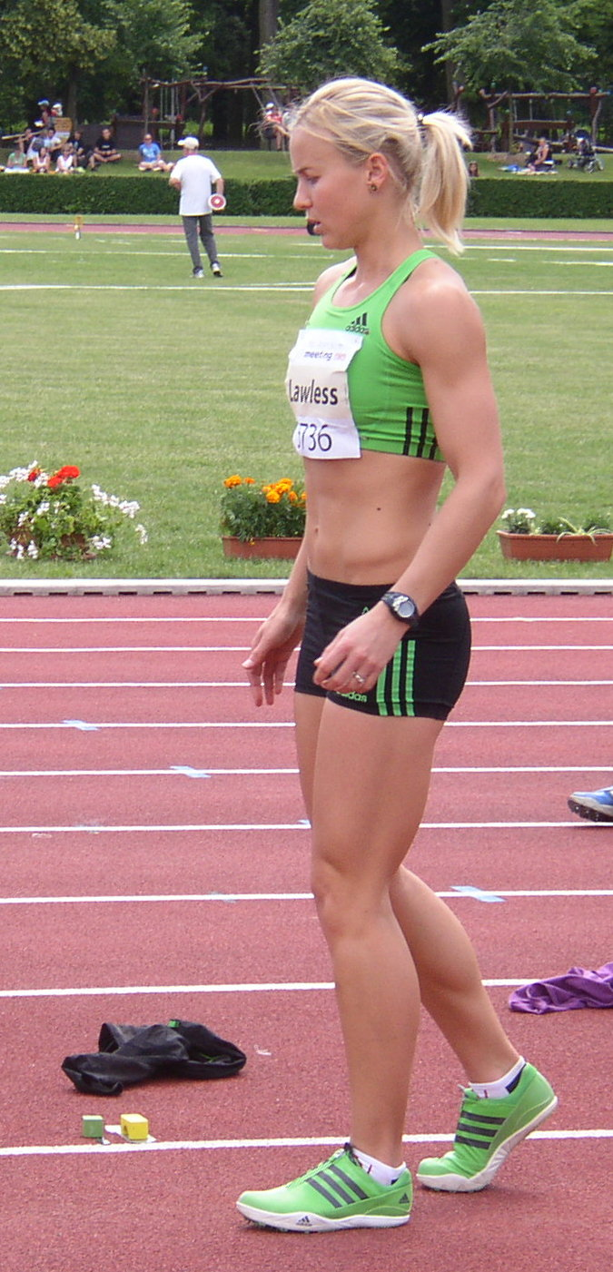 Athlete Janet Lawless (formerly Wienand) of South Africa preparing for her attempt in long jump during women's heptathlon at 5th edition of the TNT - Fortuna Meeting (IAAF World Combined Events Challenge Meeting, Sletiště Stadium, Kladno, Czech Republic, 16 June 2011, 11:53).